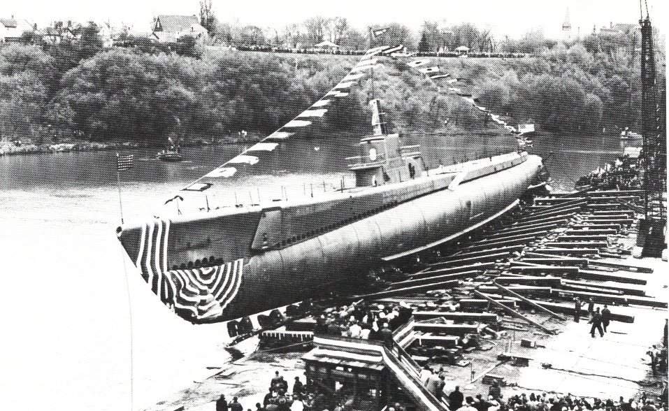 USS_Hammerhead; Hammerhead (SS-364), starts her slide into the Manitowoc River. USN Archive photo # N-70902. Photo and text courtesy of The Floating Drydock, Fleet Subs of WW II", by Thomas F. Walkowiak.